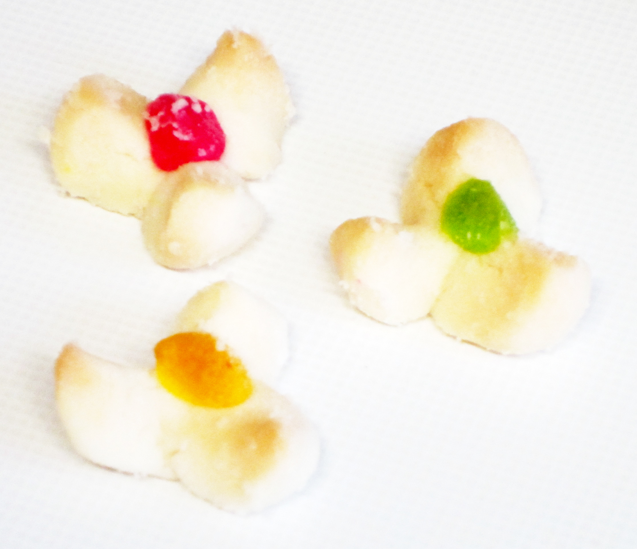 Traditional Thai cookies in the shape of the ลำดวน (lom duom) flower